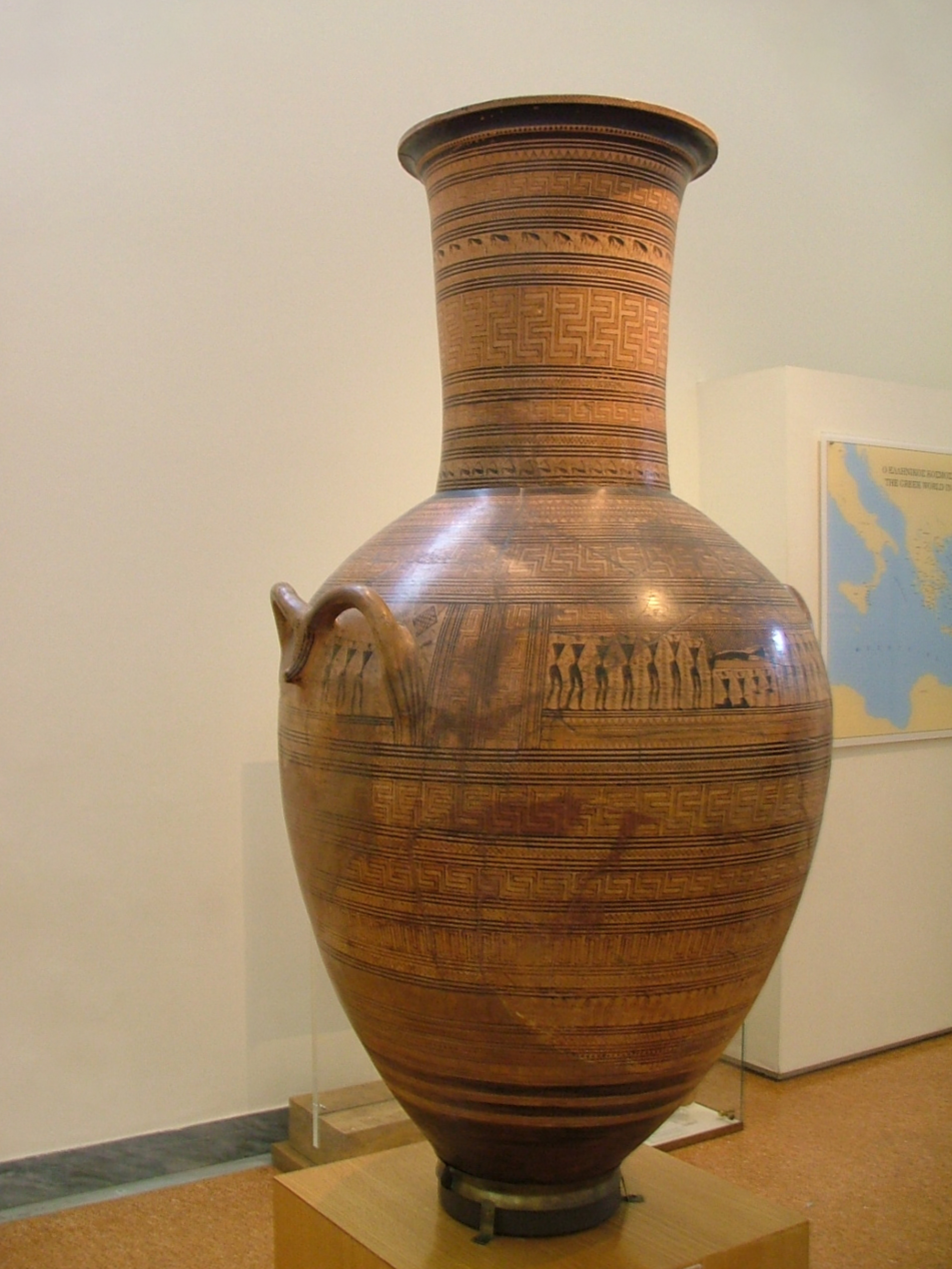 Athenian funerary amphora, Late geometric I. The main scene shows the prothesis and mourning for the dead. Over the bier is the shroud. Men, women and a child lament with the hands on their heads in the usual mourning gesture.